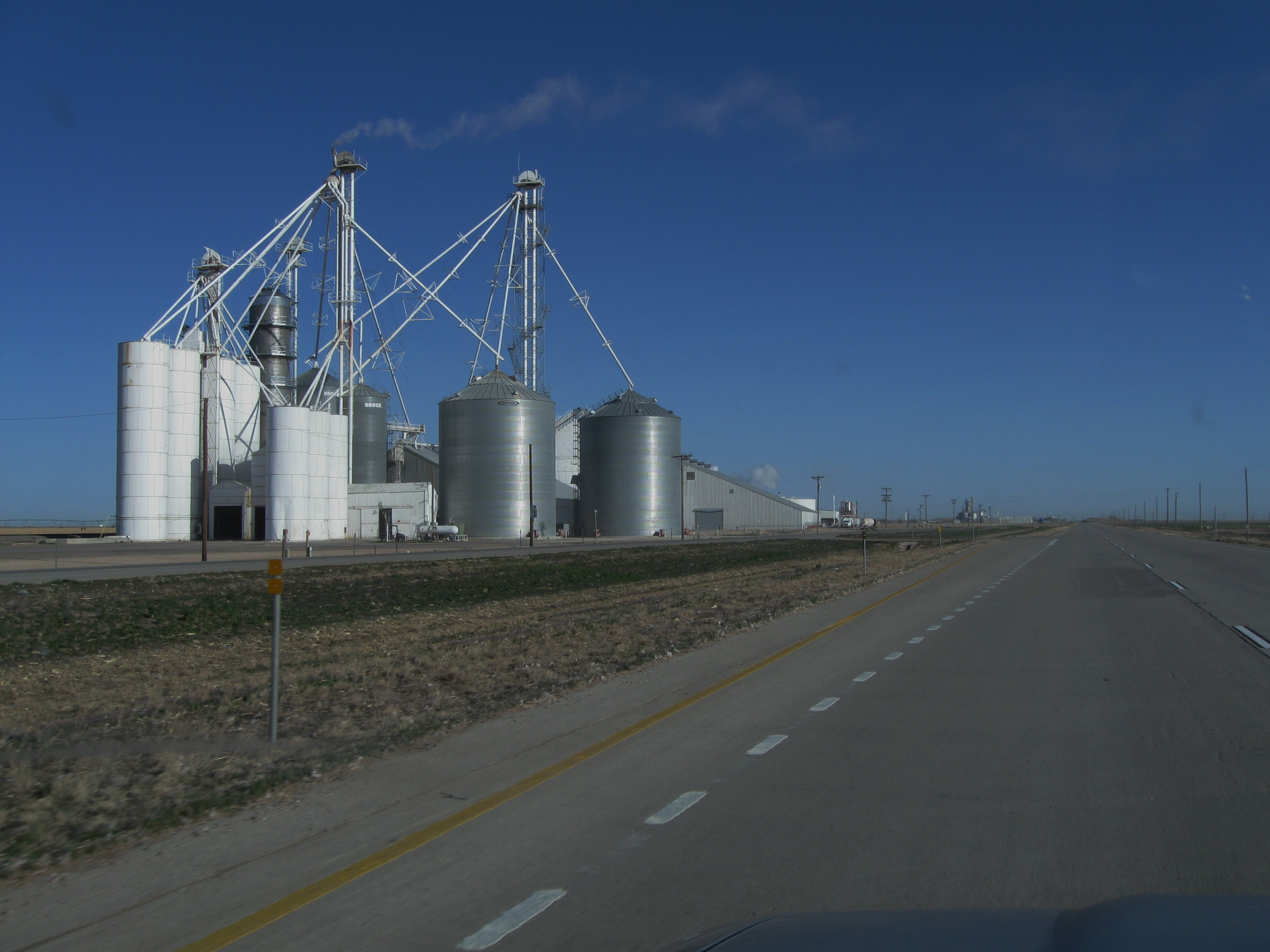 Some grain silos near Stratford, Texas. Looking northwest, March, 2009